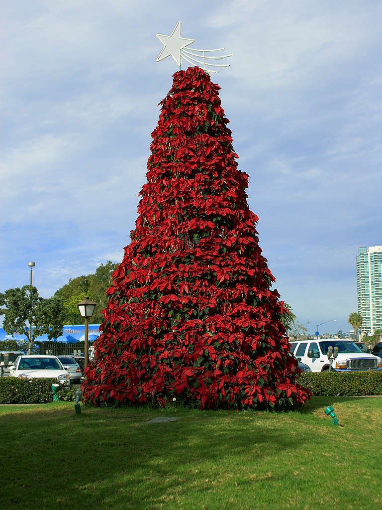 Picture of a Christmas tree of poinsettias (topped by a five-pointed star of Bethlehem finial); from Original caption: "Poinsettia Tree - 2006-01-01 A Christmas Poinsettia tree in San Diego."